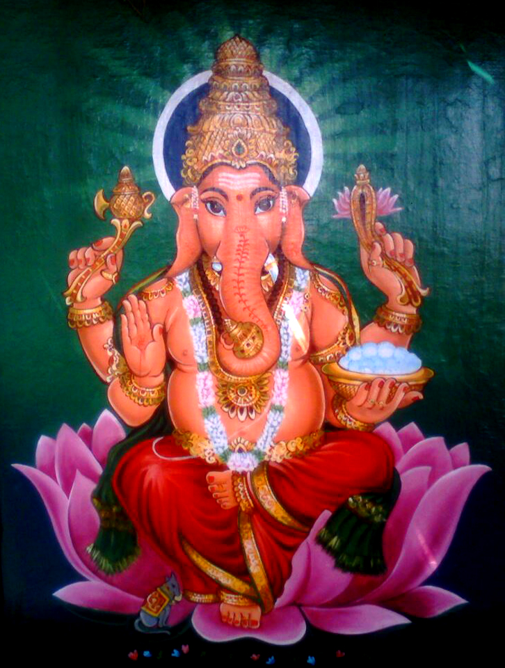 Ganesha Painting at a Temple in Bhadrachalam, Khammam district